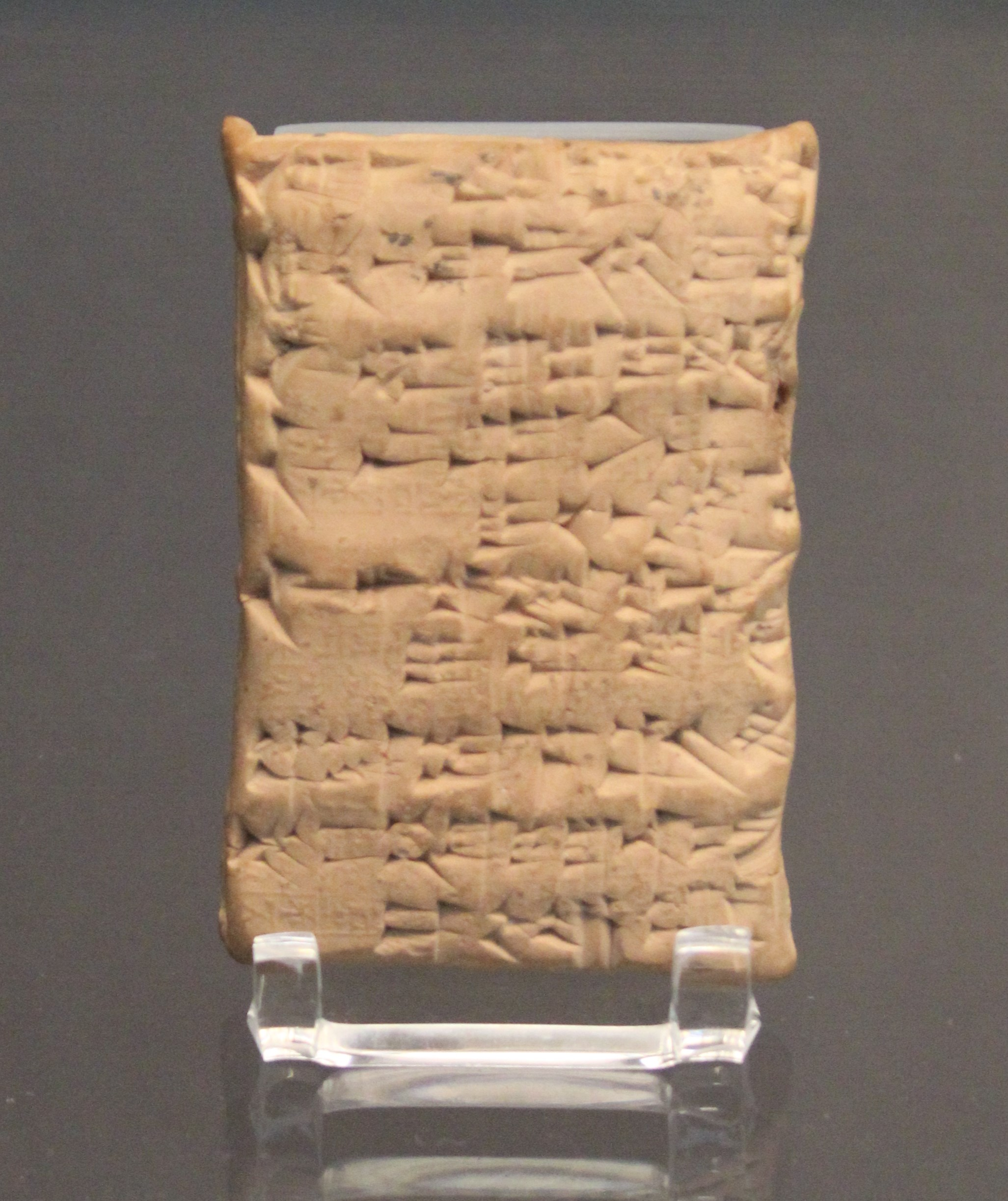 Contract for a loan of silver, from Tell Sifr, ancient Kutalla. Old Babylonian period, c. 1745 BC. BM 33257.